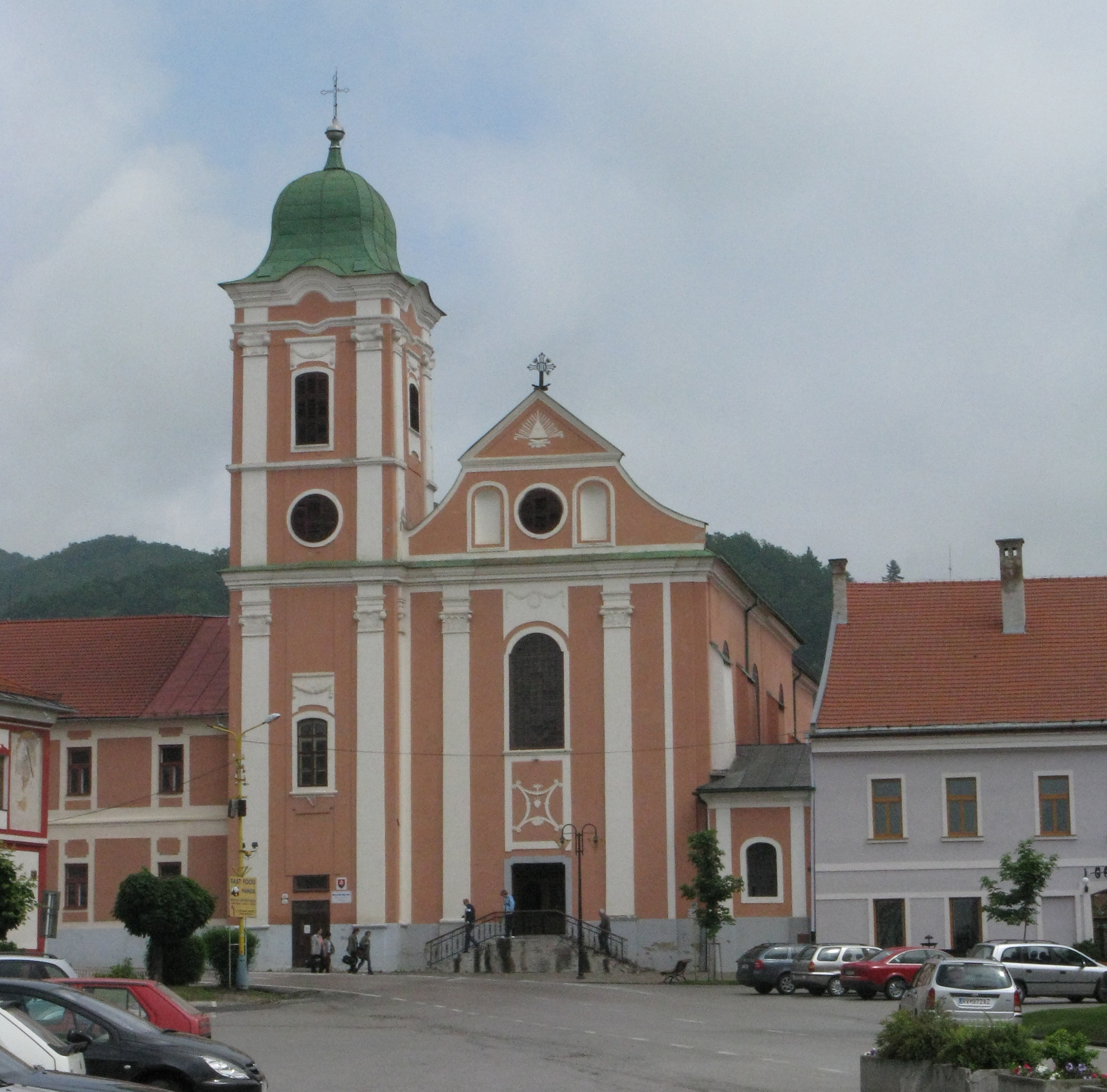 Rožňava - st Anna Church